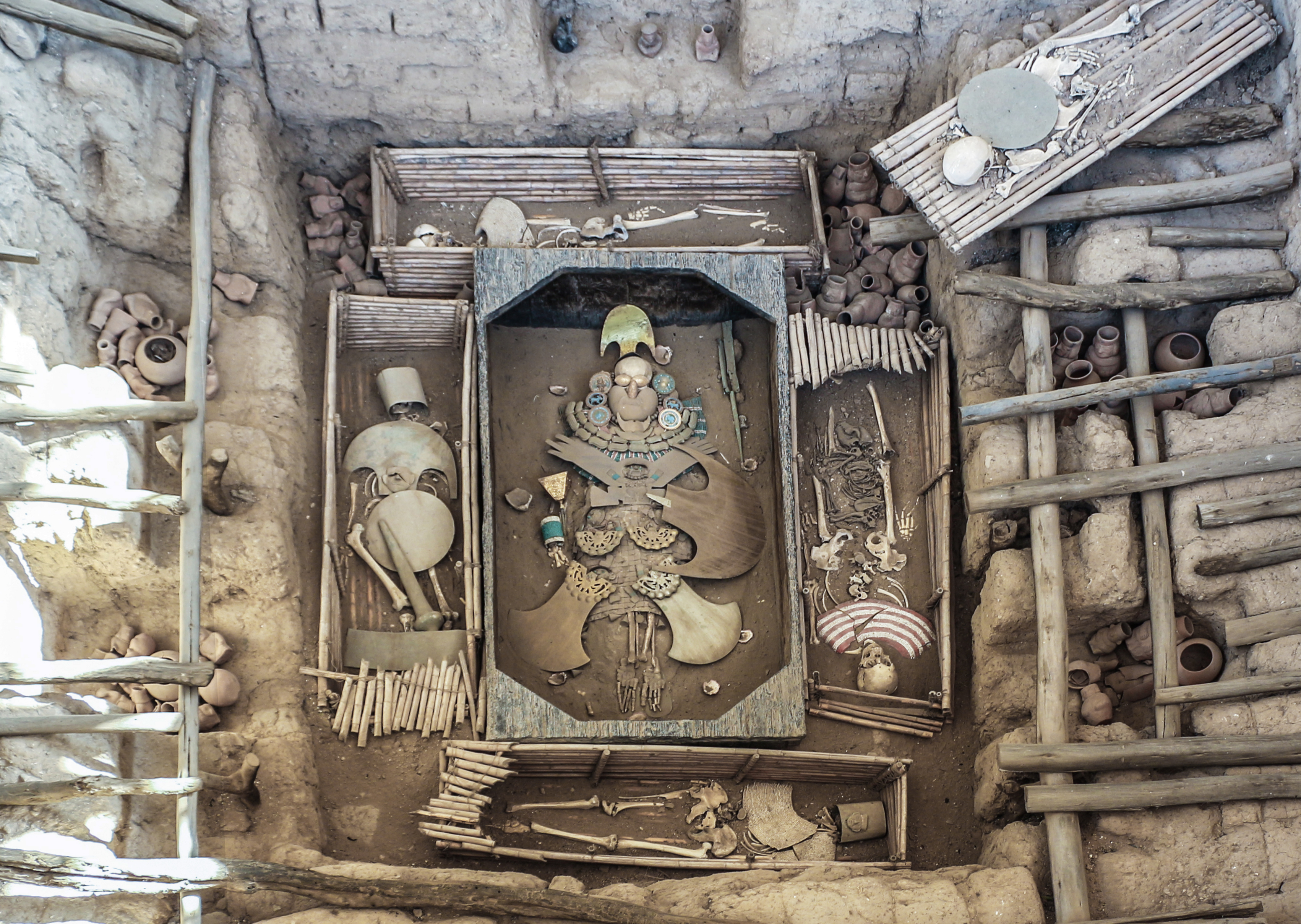 Reconstruction of the tomb of the Lord of Sipán in Huaca Rajada, Peru